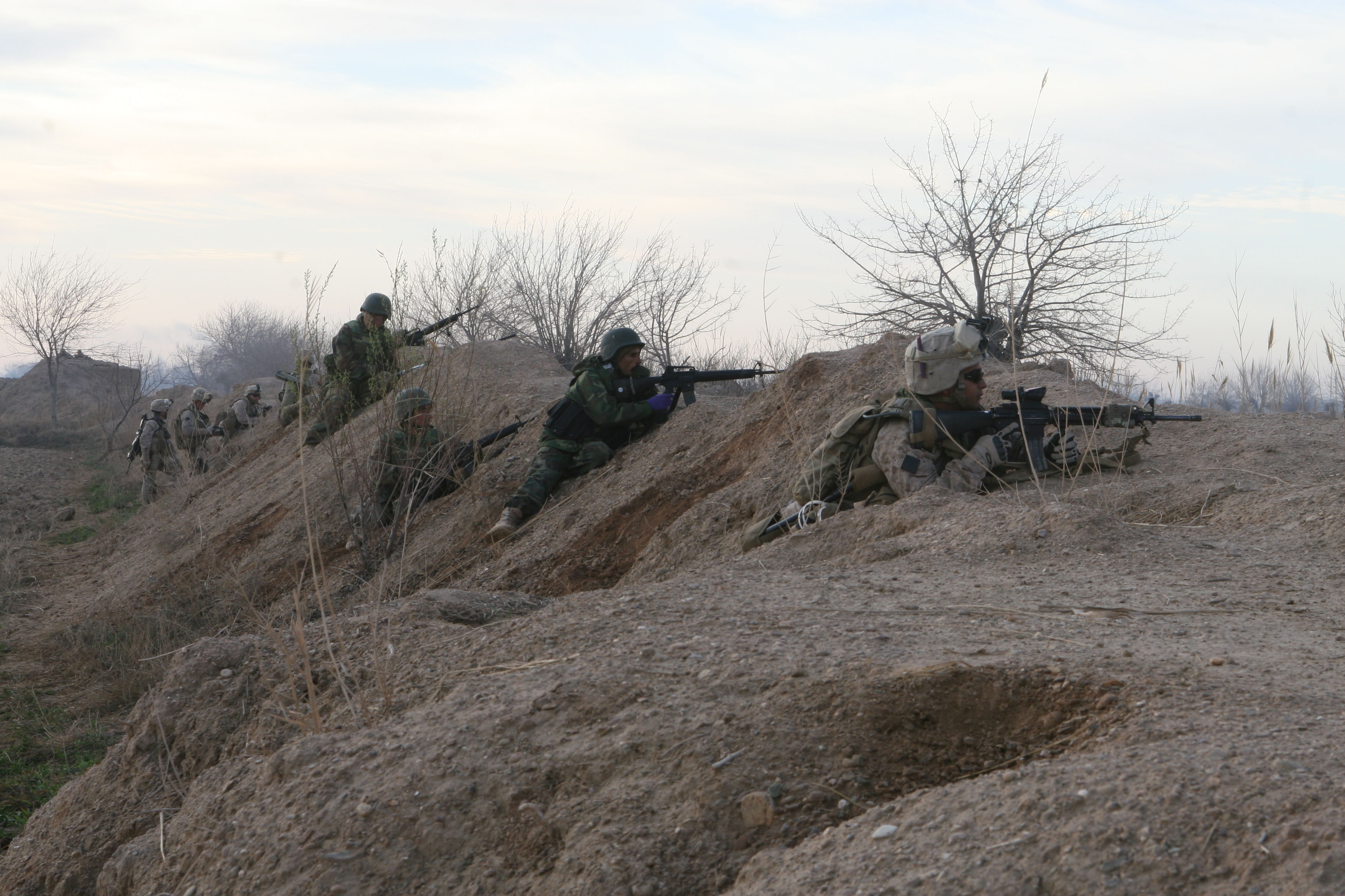 HELMAND PROVINCE, Islamic Republic of Afghanistan – Marines and Afghan National Army soldiers with Bravo Company, 1st Battalion, 6th Marine Regiment take cover behind a berm after receiving small-arms fire, Feb. 13, in the city of Marjeh, Helmand province, Afghanistan. Marines with Bravo and Alpha Co., 1/6, inserted into the city at night by helicopters as part of a large-scale offensive aimed at routing the Taliban from their last-known stronghold in Helmand province. (Official Marine Corps photo by Lance Cpl. James Clark)